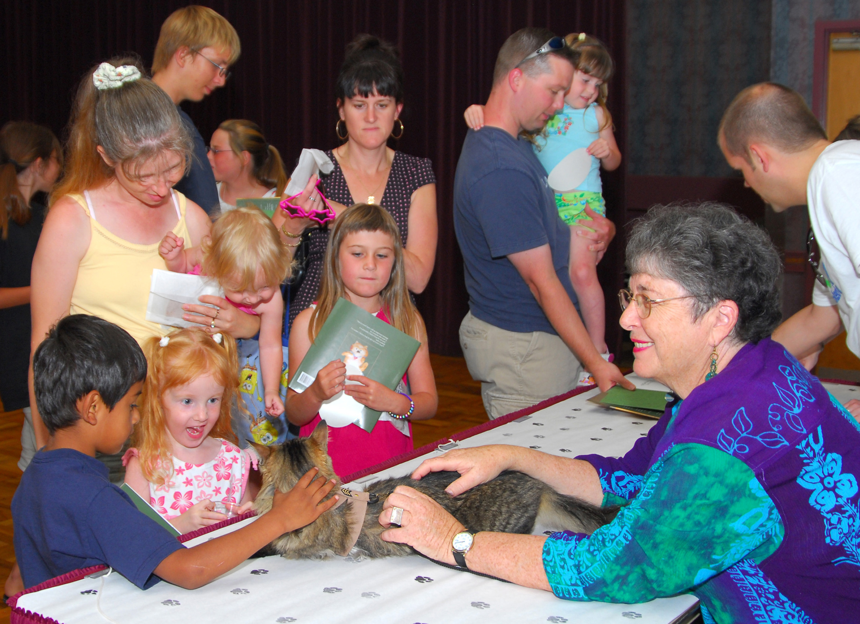 Cathy Conheim, the author of the best selling children's book "What's the Matter with Henry? The True Tale of a Three-legged Cat", and Henry the cat have a meet and greet with military families at the read and learn event held at the Scottish Rite Center in San Diego, California, June 28, 2007. (U. S. Navy photo by Mass Communication Specialist 3rd Class Chelsea Kennedy) Released But Not Accessioned (Cleaned and/or Corrected)